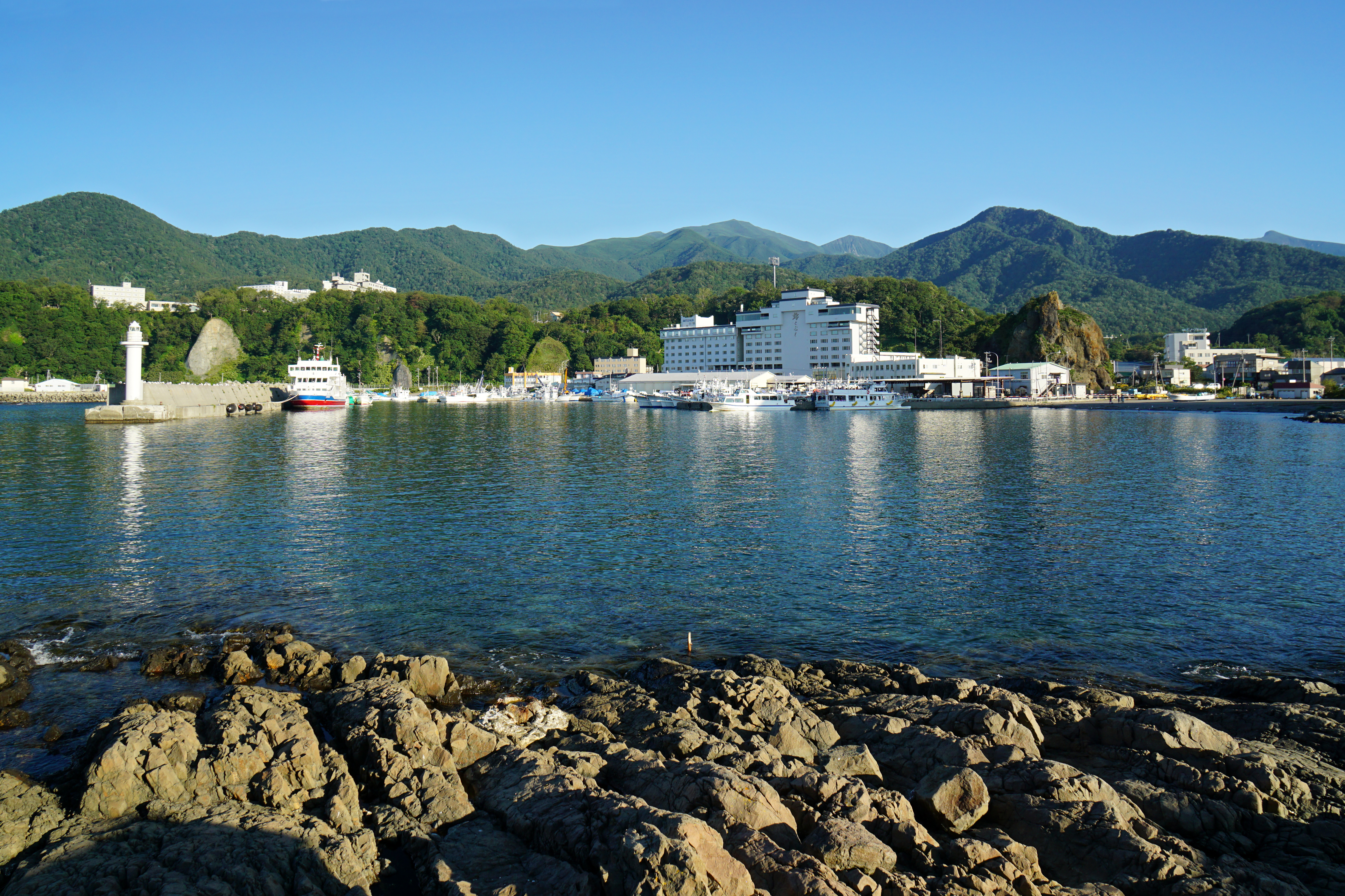 Utoro Port in Shari, Hokkaido prefecture, Japan.